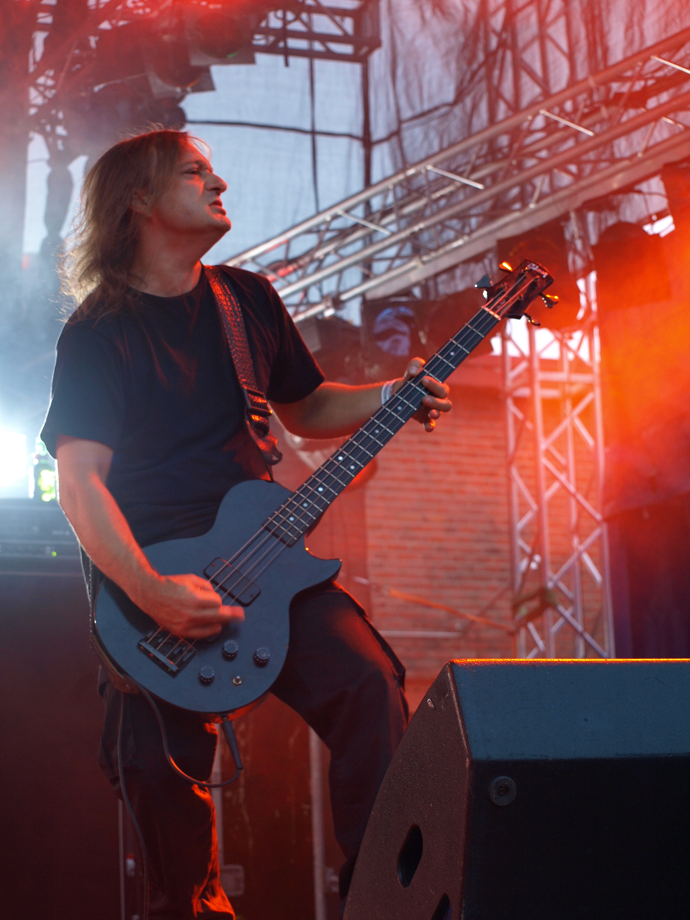 Norwegian black metal band Mayhem live at Jalometalli 2008 in Oulu.